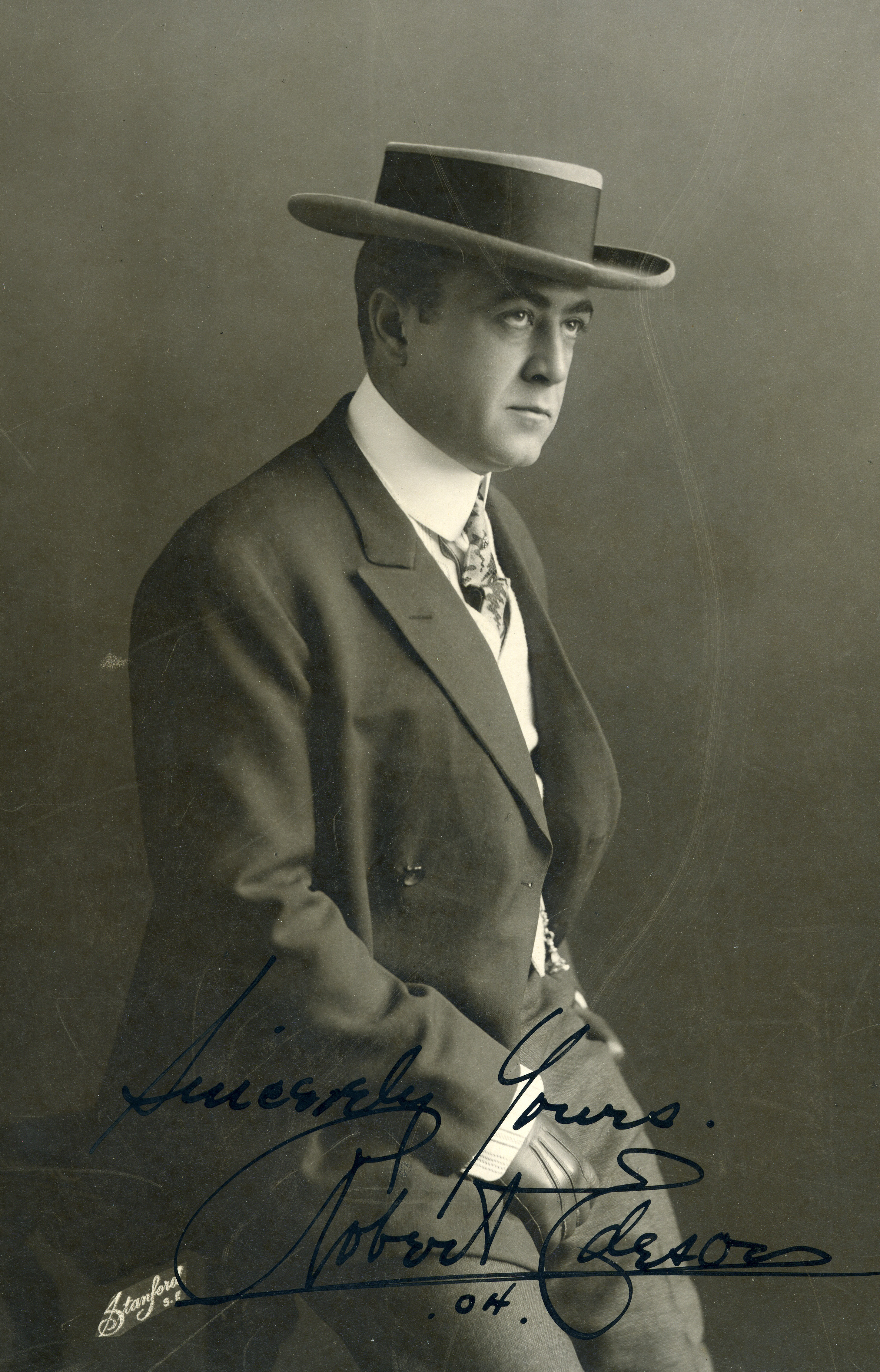 Robert Edeson, old time 'Sconset summer visitor and actor. Played also in silent pictures